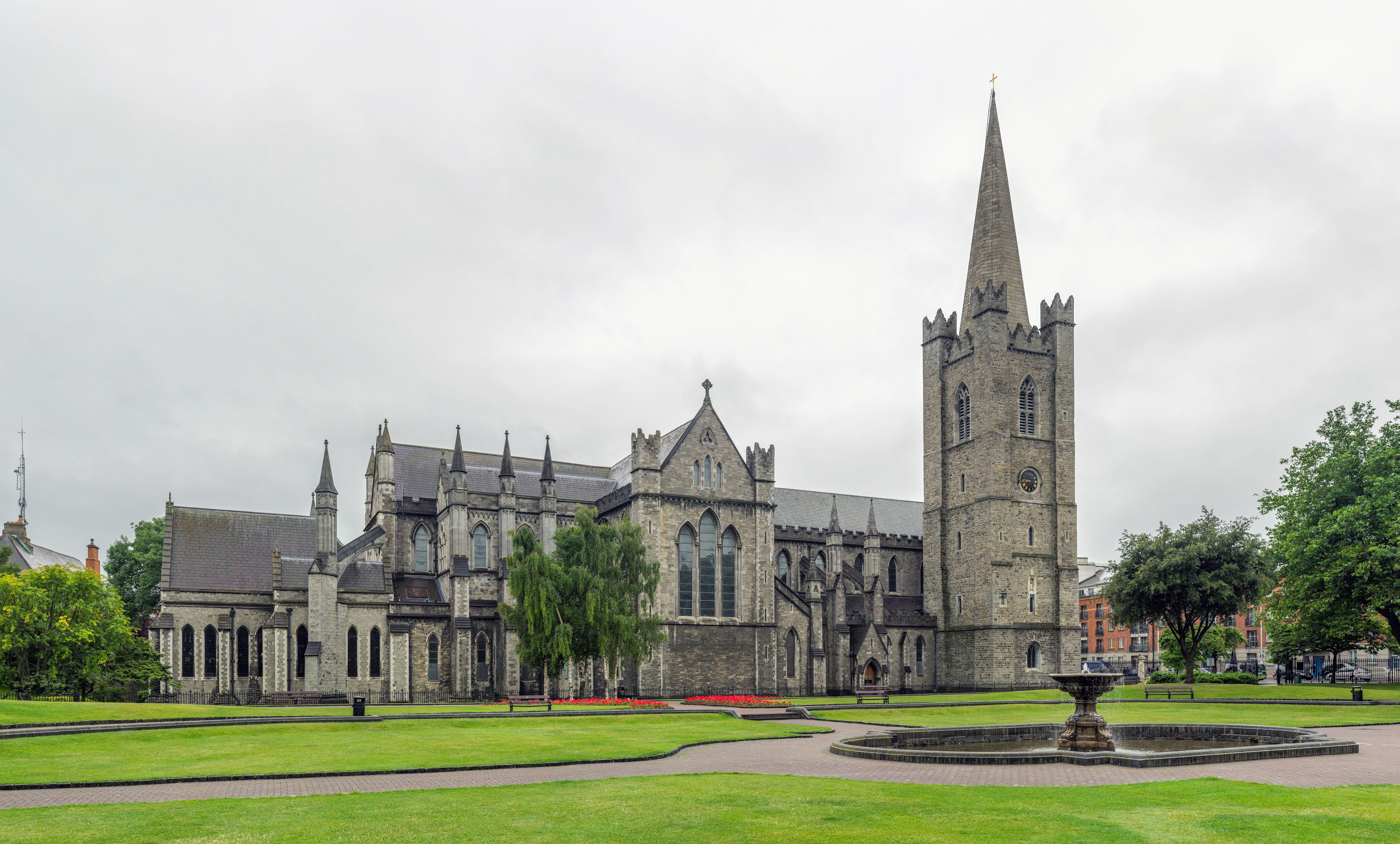 The exterior of St Patrick's Cathedral as viewed from the north-east across St Patrick's Park in Dublin, Ireland.